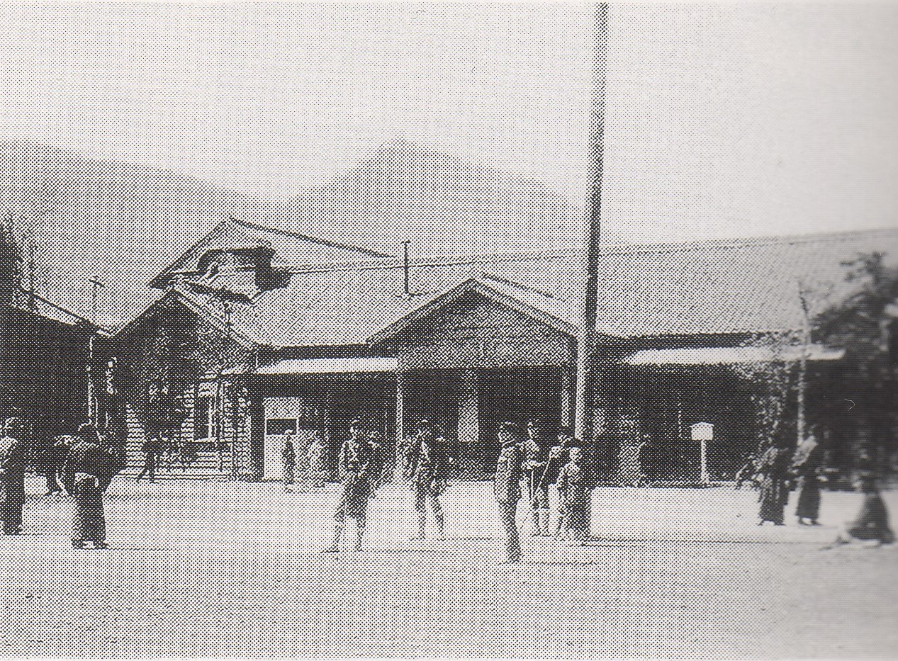 First Moji station building. The station building was replaced by current building in 1914, and the station name was renamed to Mojiko station in 1942.